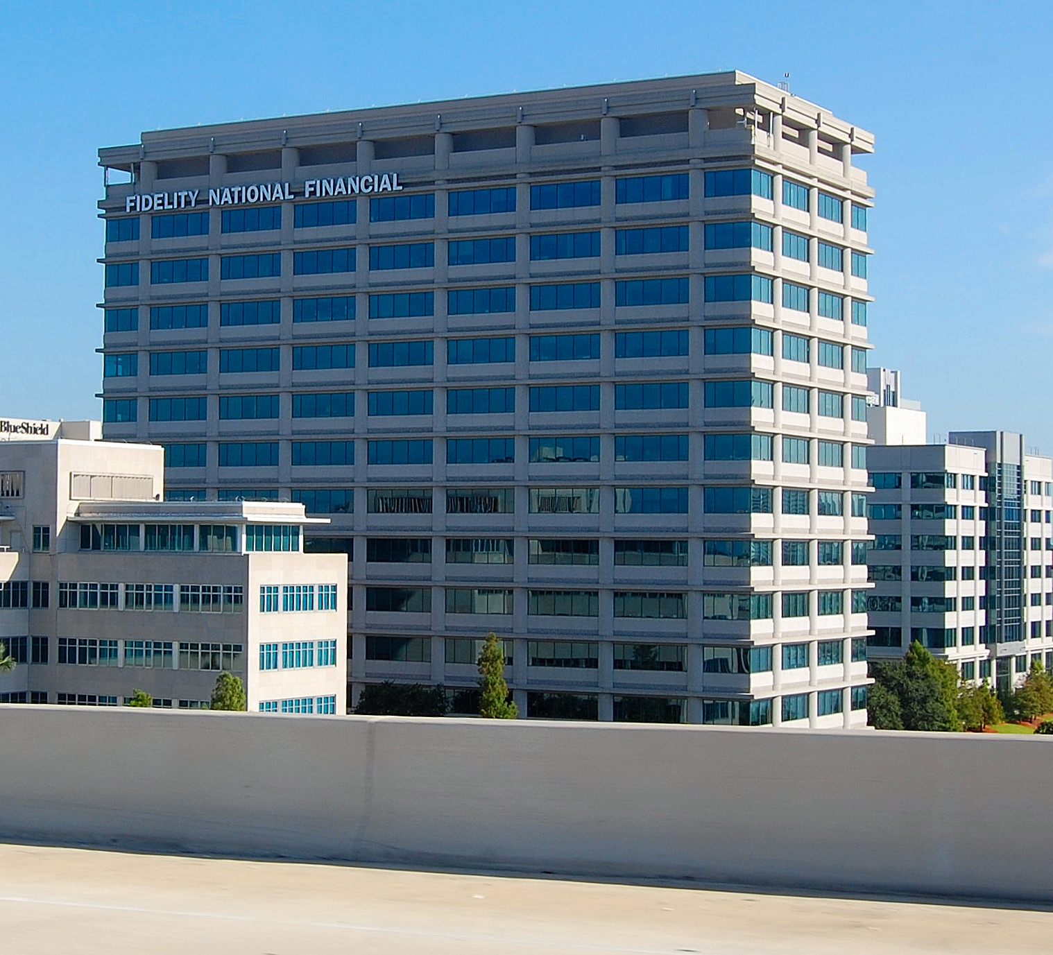 Fidelity National Financial Plaza 2 in Jacksonville, Florida